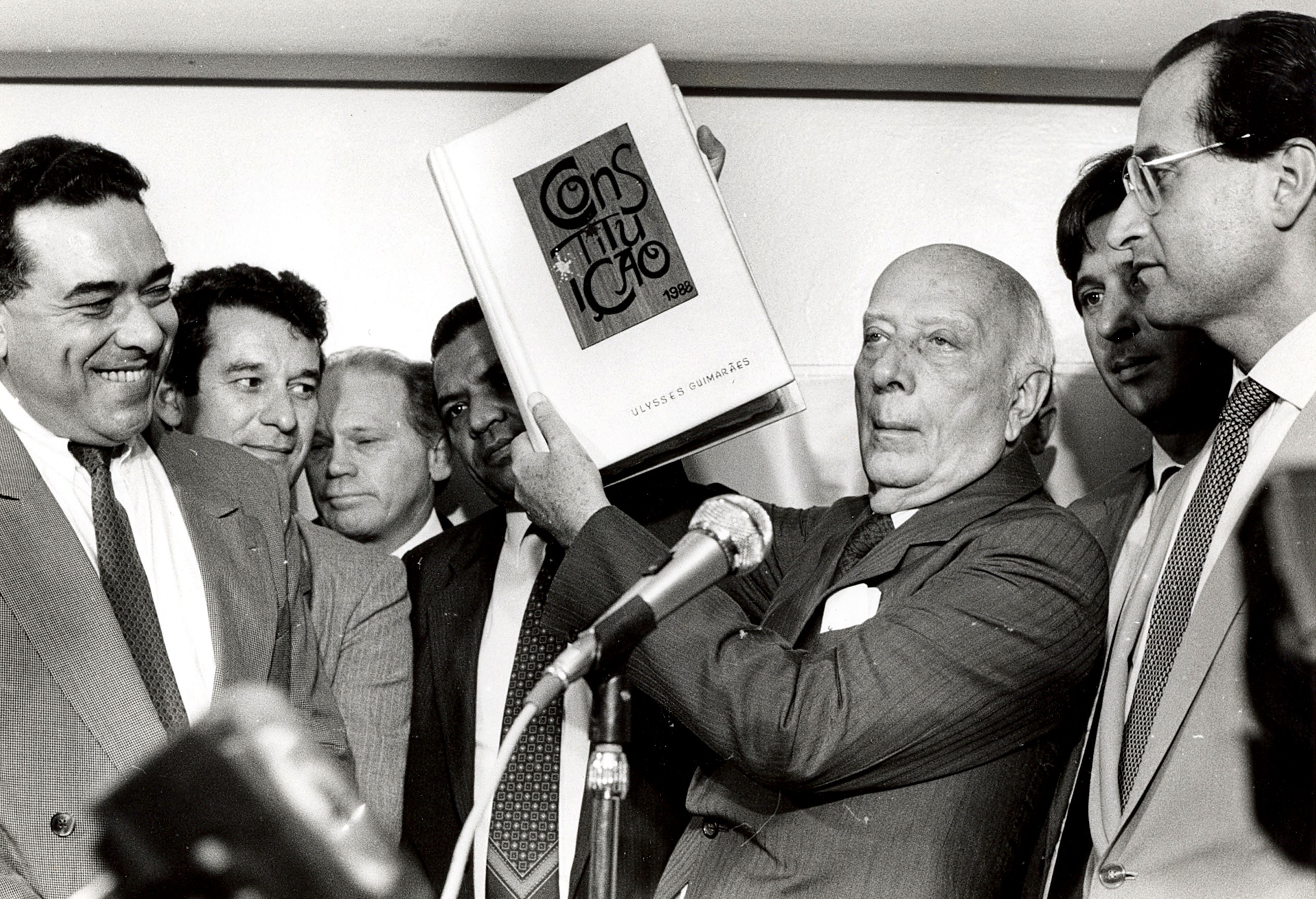 Ulysses Guimaraes and the Brazilian Constitution of 1988.